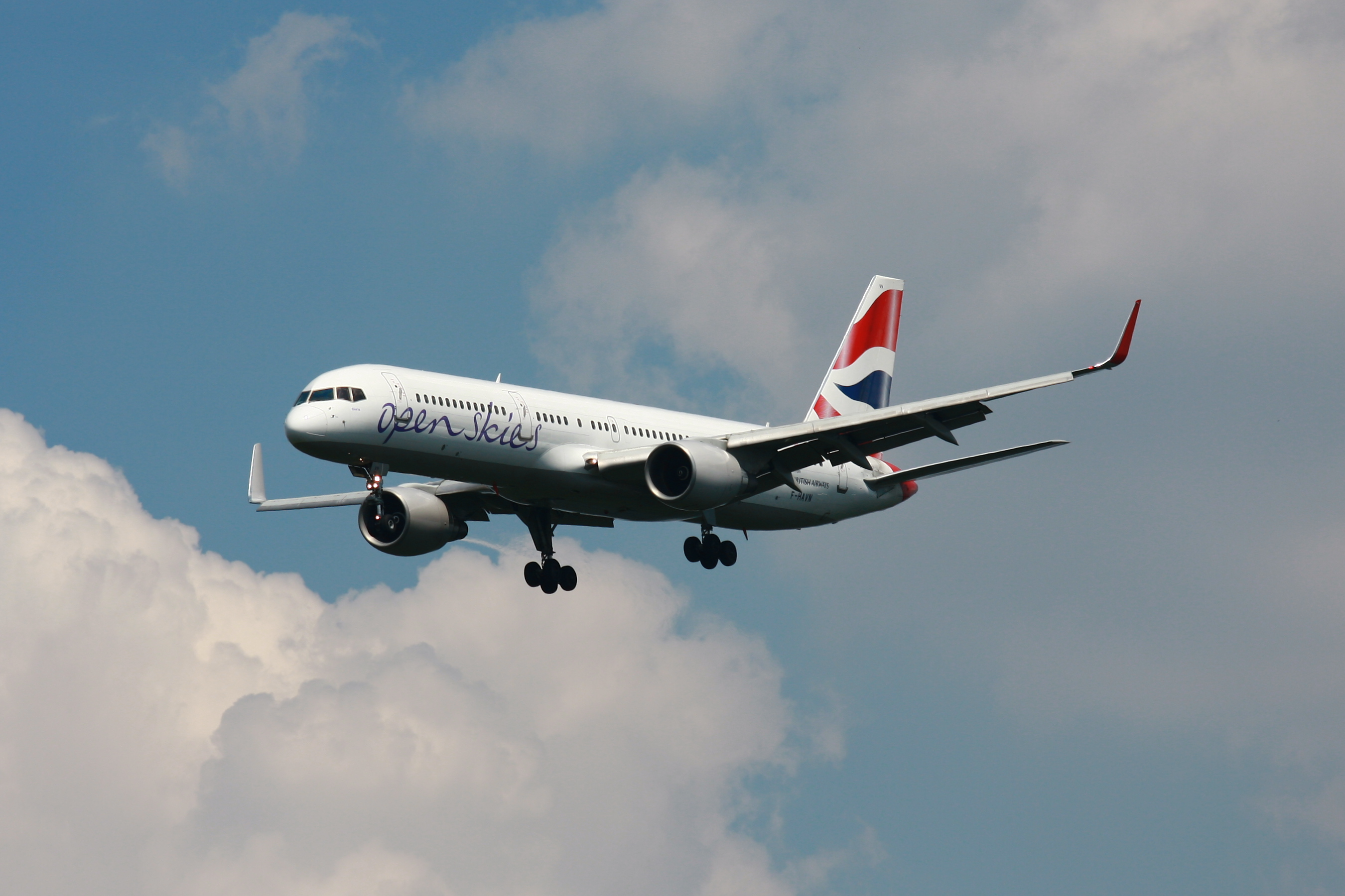 A Boeing 757-200 of OpenSkies landing at Frankfurt Airport